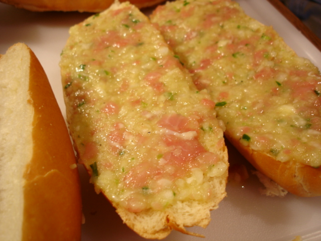 Roti John before being placed in the pan to be fried